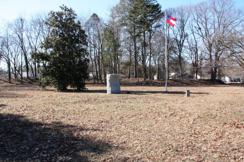 Fort Magruder after cleanup in late January, 2011. Good view of the remaining original earthworks.